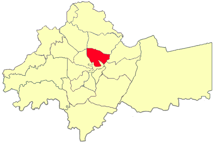 Amman districts